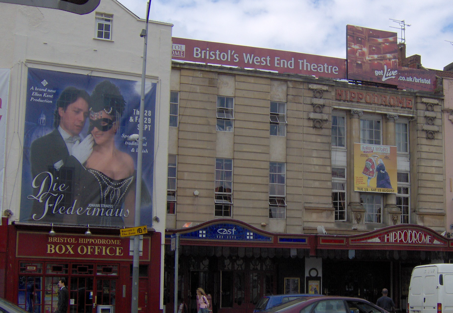 Bristol Hippodrome. Taken by Rod Ward 16th August 2006